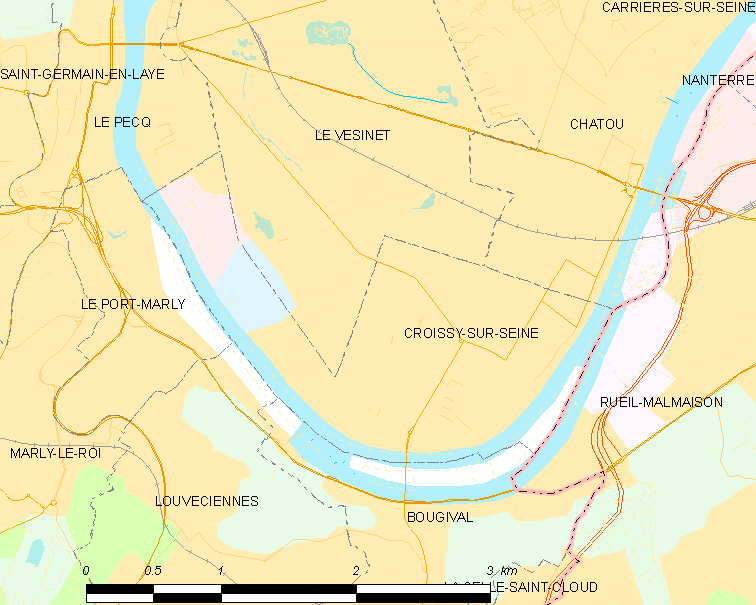 Map of French municipality Croissy-sur-Seine